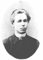 Alexander Vasilievich Nikolsky (1874-1943), Russian choral and church music composer, theorist and teacher.